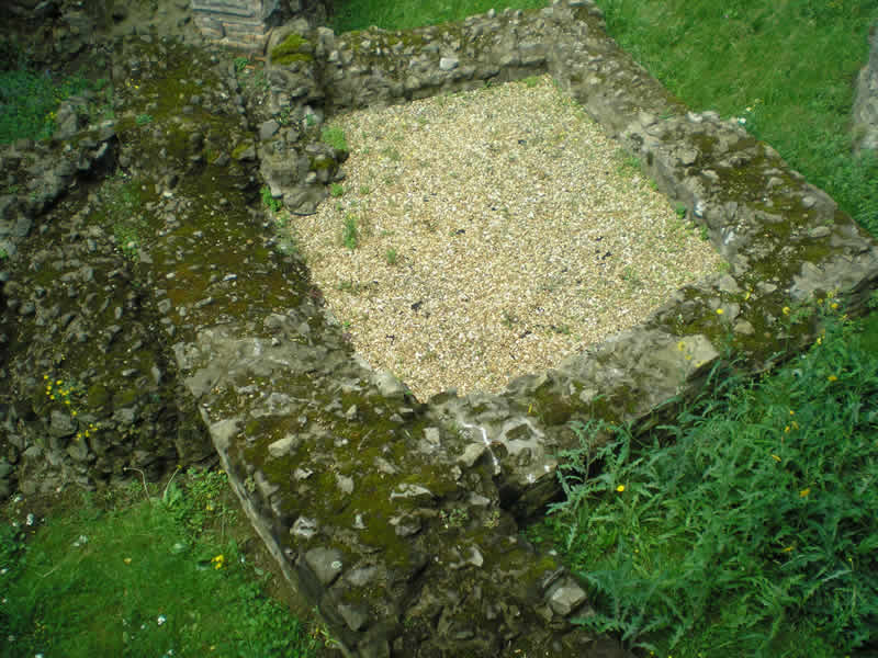 Remains of the Roman military fortress of London